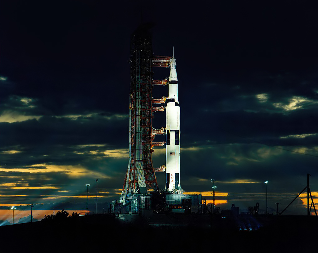 Apollo 17 Saturn V rocket on Pad 39-A at dusk. This was the last human flight to the moon.